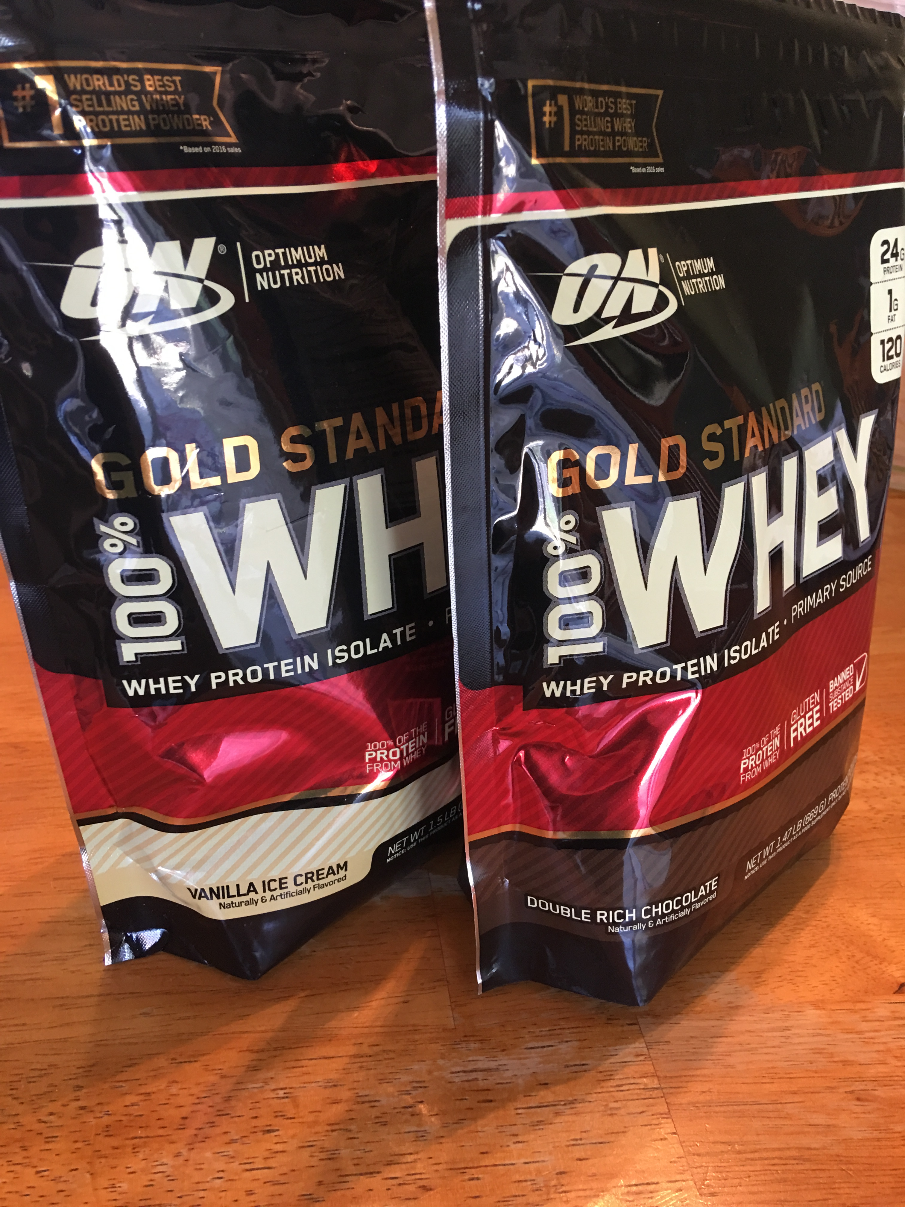 ON Gold Standard